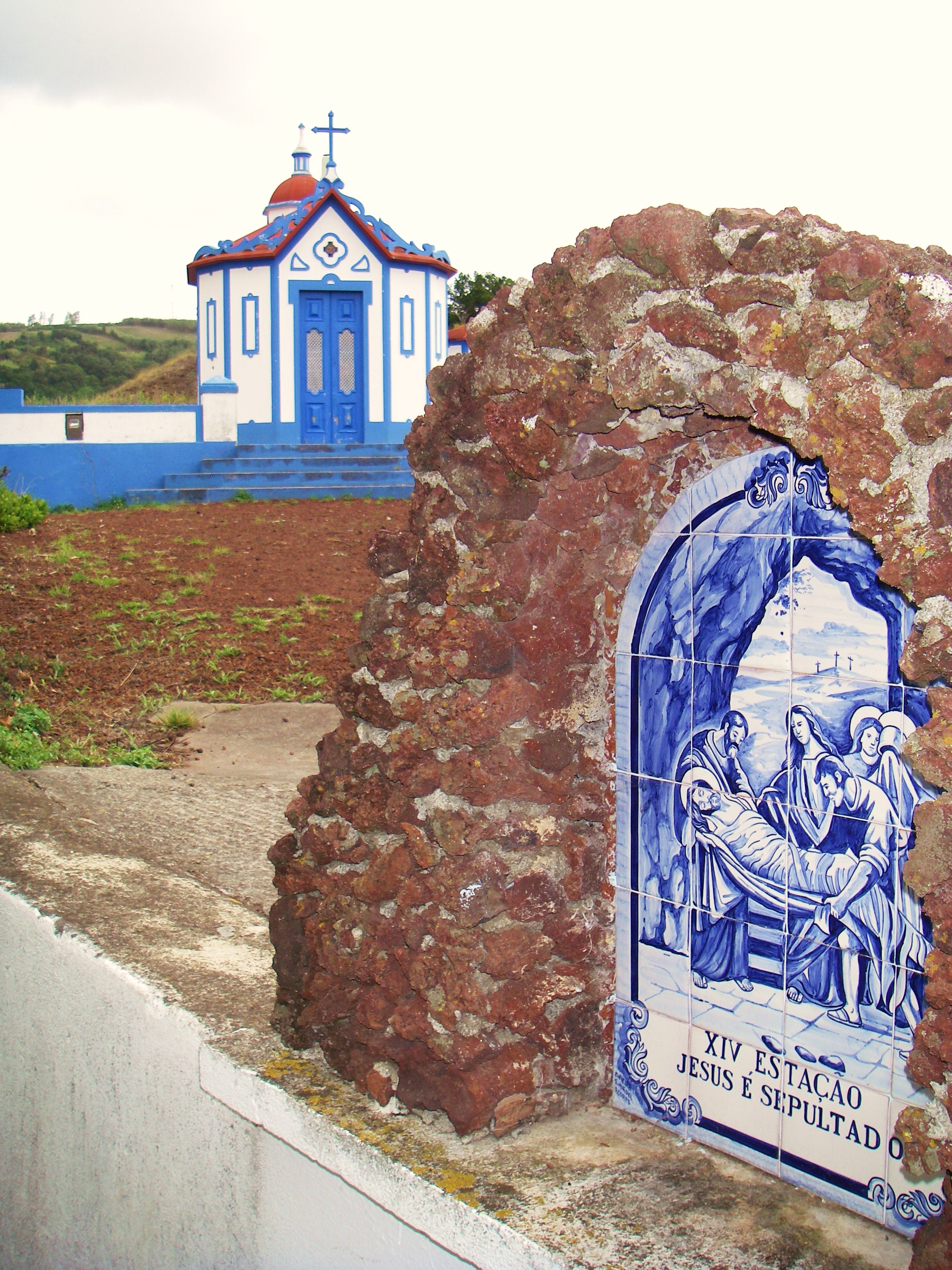 Aqua de Pau church at the top of a small mountain